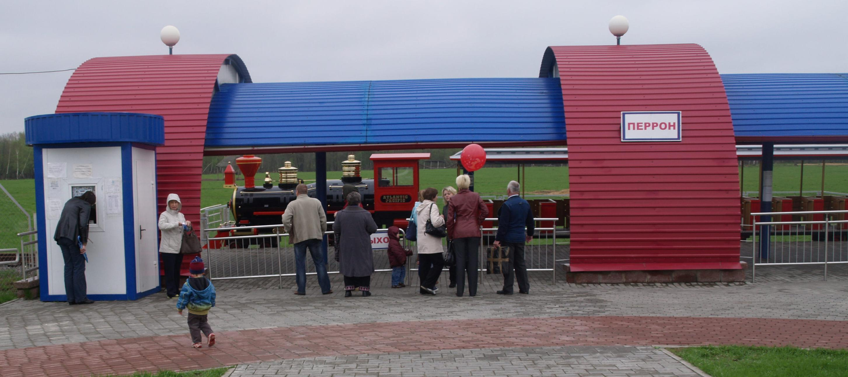 Mogilev Zoo The platform of the railway